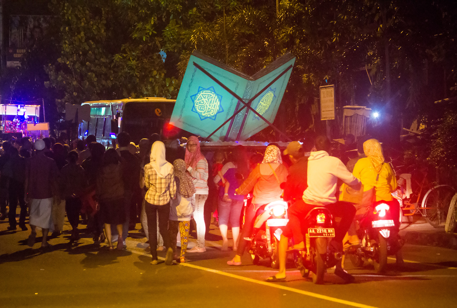 Parade on the night of Eid ul-Fitr, Yogyakarta, 2014-07-27. Here is a procession with a float shaped like the Quran.